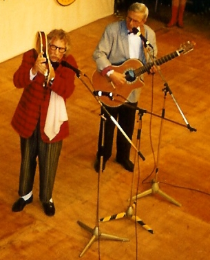 Süper Duett, german carneval duo from Cologne